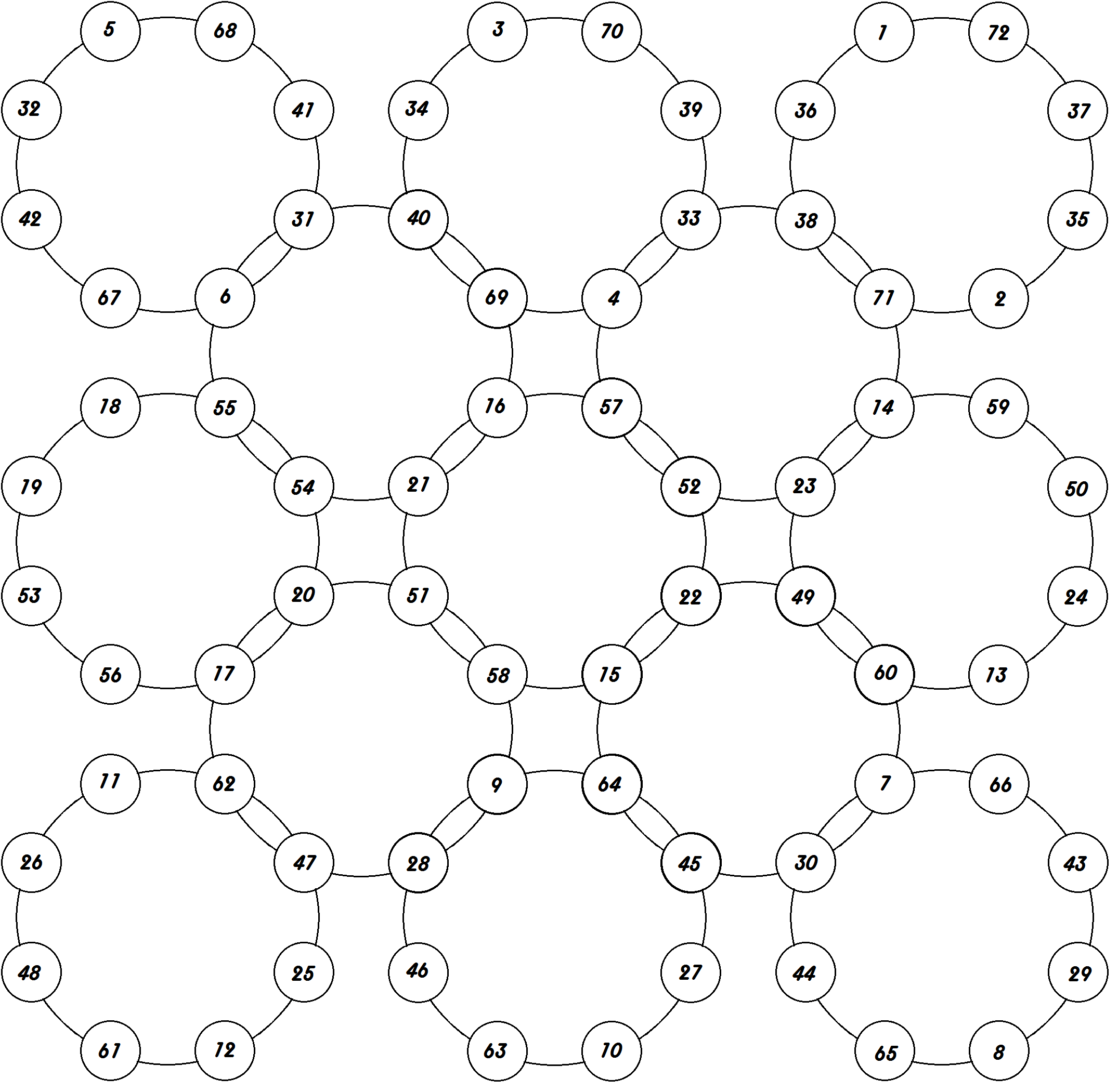 Based on File:Yanghui magic circle 2.jpg